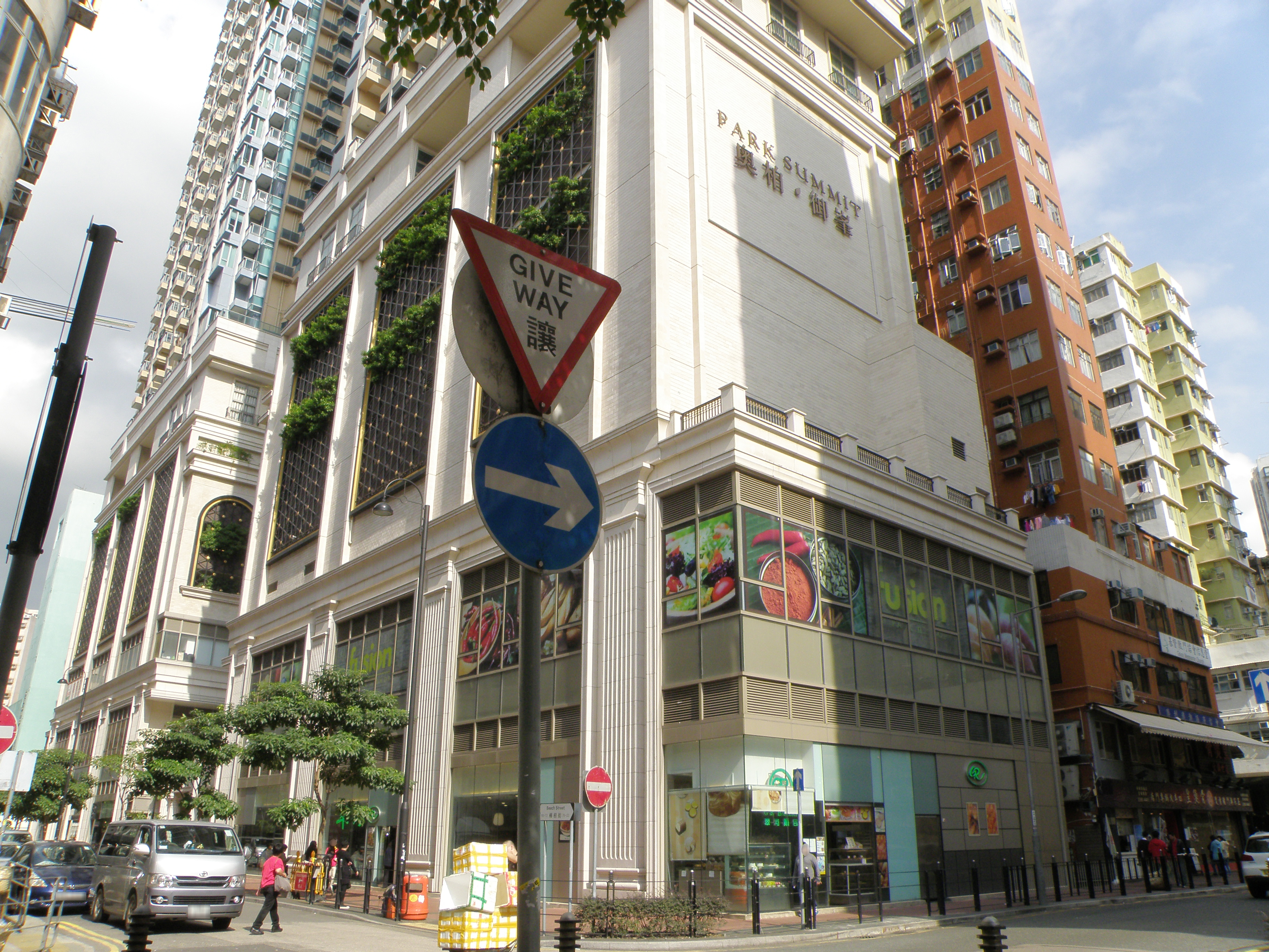 Park Summit in Tai Kok Tsui, Hong Kong.